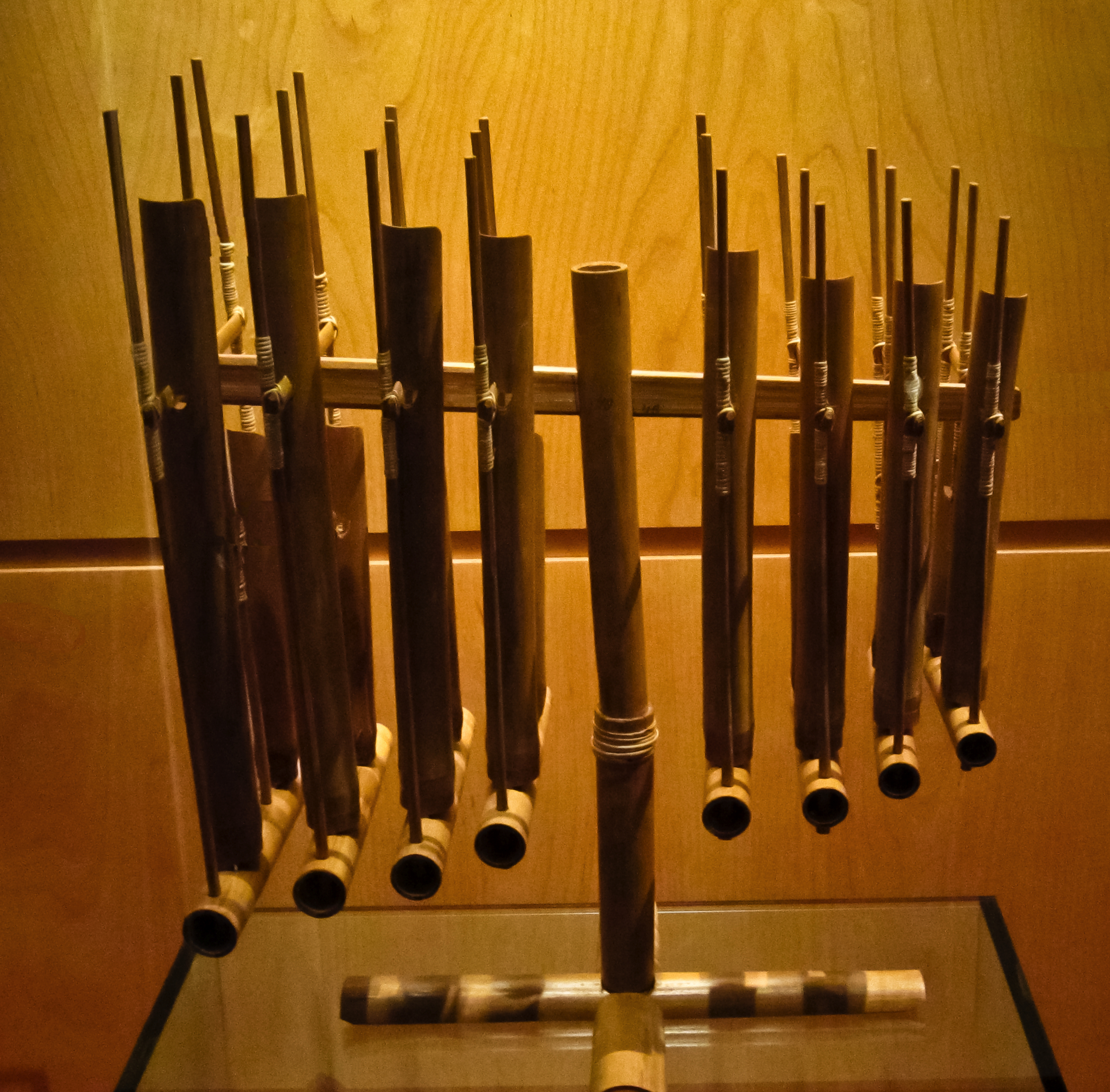 Music instrument, angklung, from Indonesia 1993 .Museu de la Música de Barcelona.(MDMB 1451)